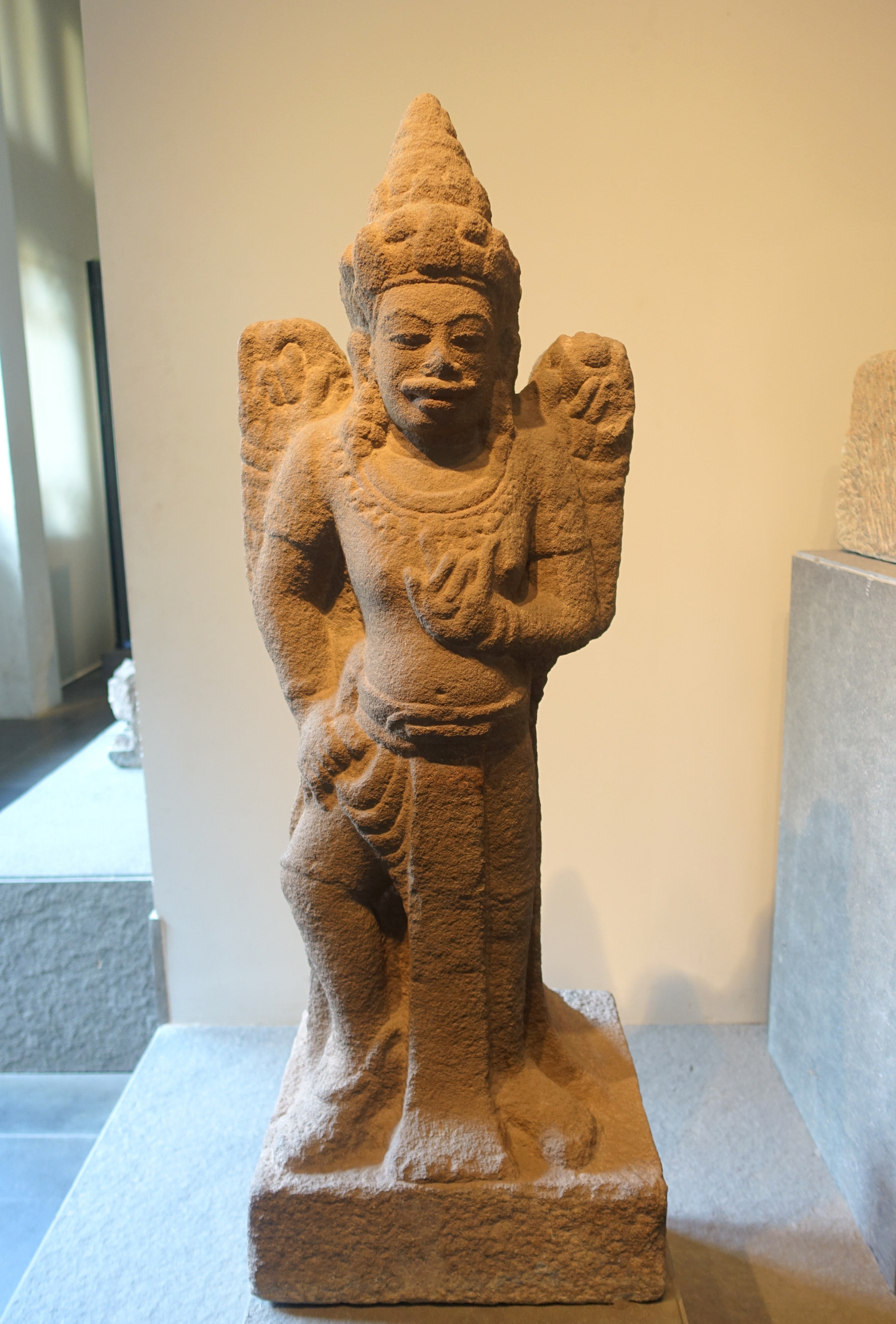 Exhibit in the Museum of Vietnamese History, Ho Chi Minh City, Vietnam. This work is old enough so that it is in the public domain.